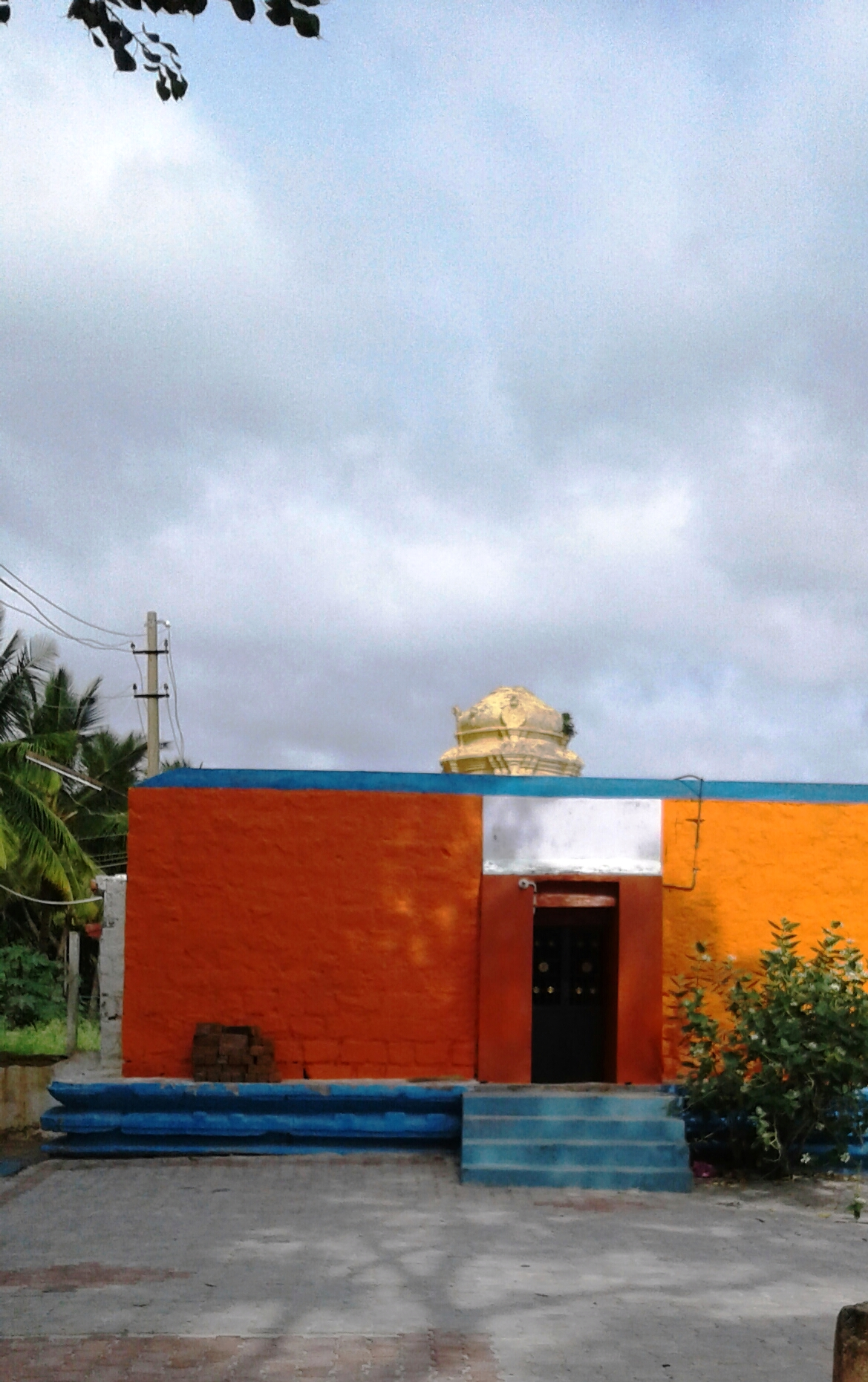 Tumkur District, Karnataka state, India.